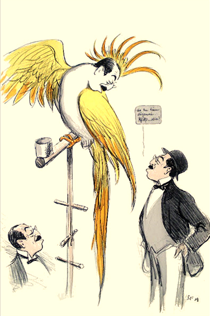 Kostia Vlastos. Caricature by Georges Goursat (SEM). «Have you had a good breakfast KoKo…stia?»